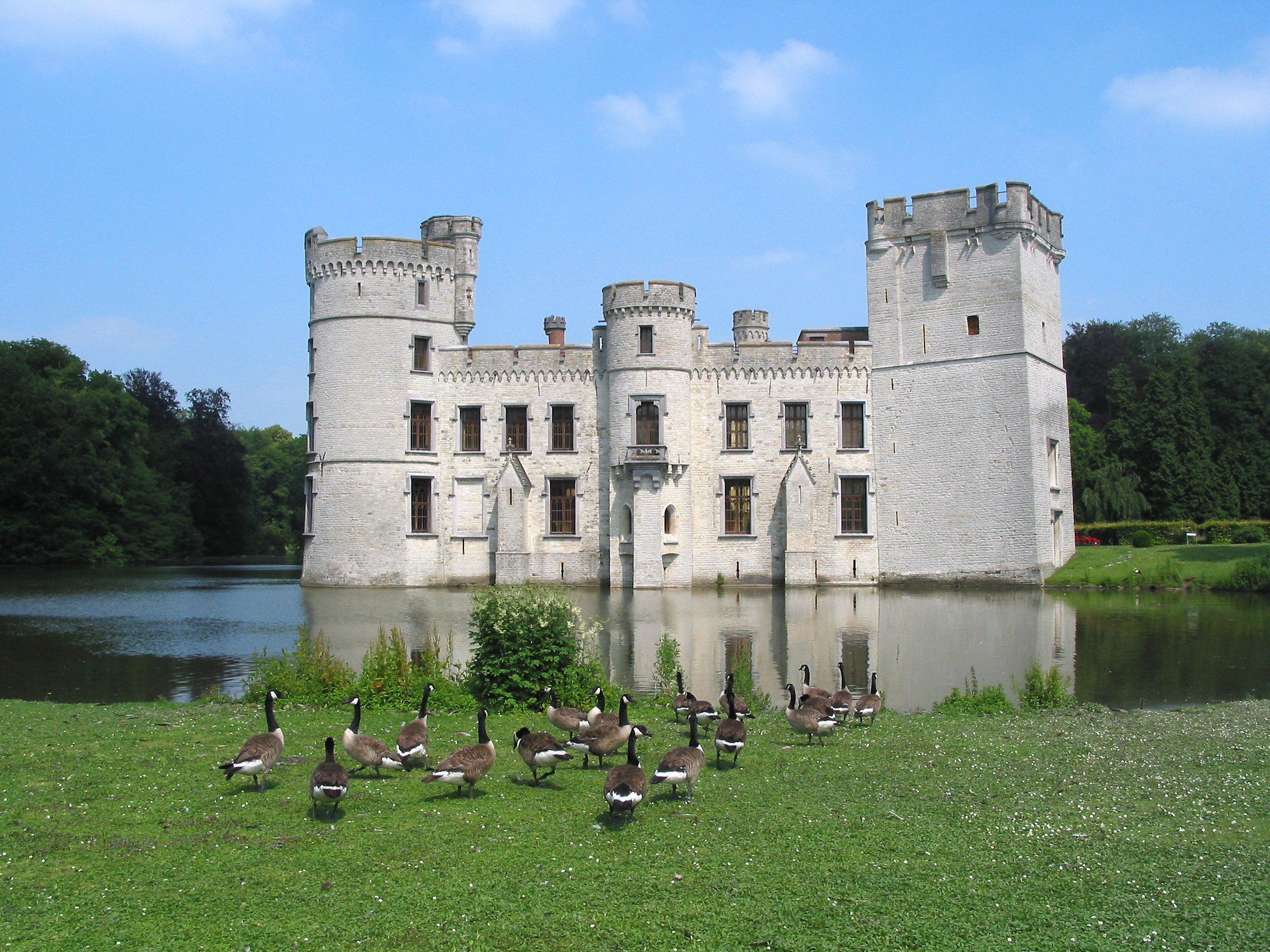 Meise (Belgium), the Bouchout castle (XII-XIXth centuries).